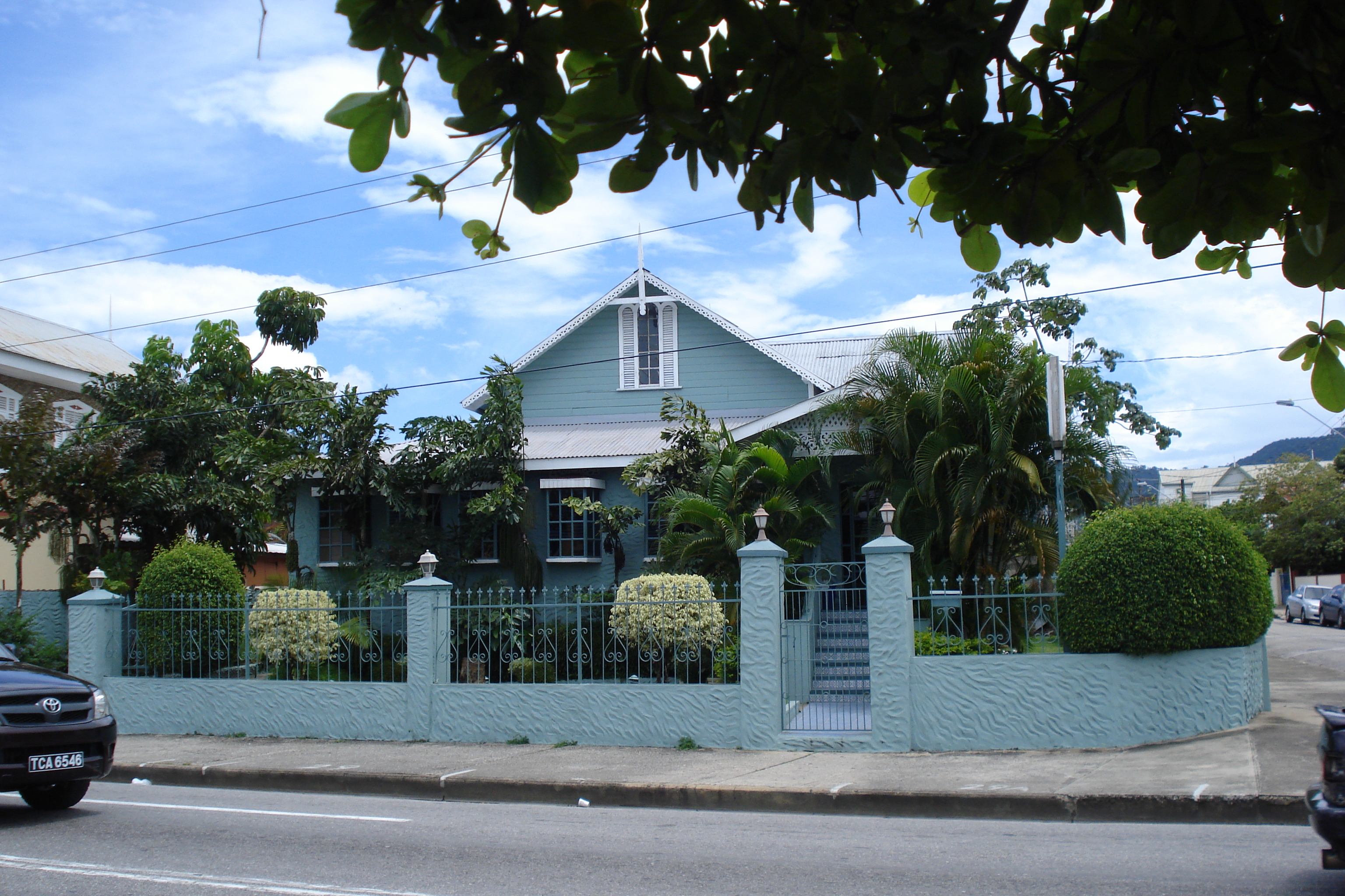 Business on Ariapita Avenue, Port of Spain